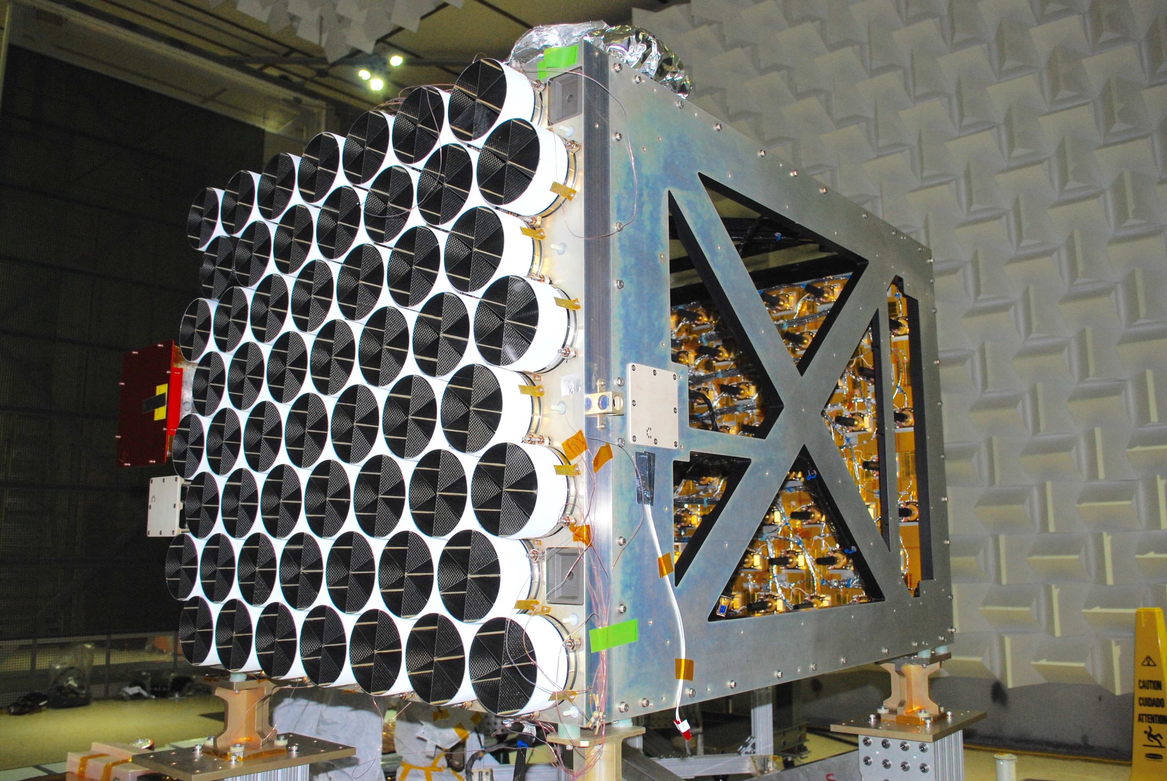 A view of the NICER X-ray Timing Instrument without its protective blanketing shows a collection of 56 close-packed sunshades—the white and black cylinders in the foreground—that protect the X-ray optics (not visible here), as well as some of the 56 X-ray detector enclosures, on the gold-colored plate, onto which X-rays from the sky are focused.